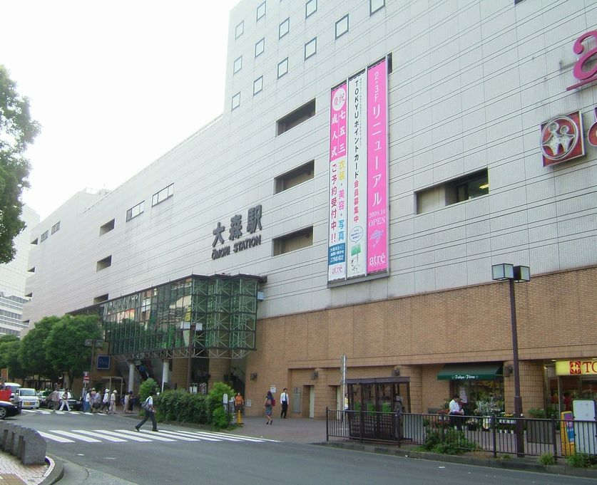 East Exit of JR East Ōmori Station